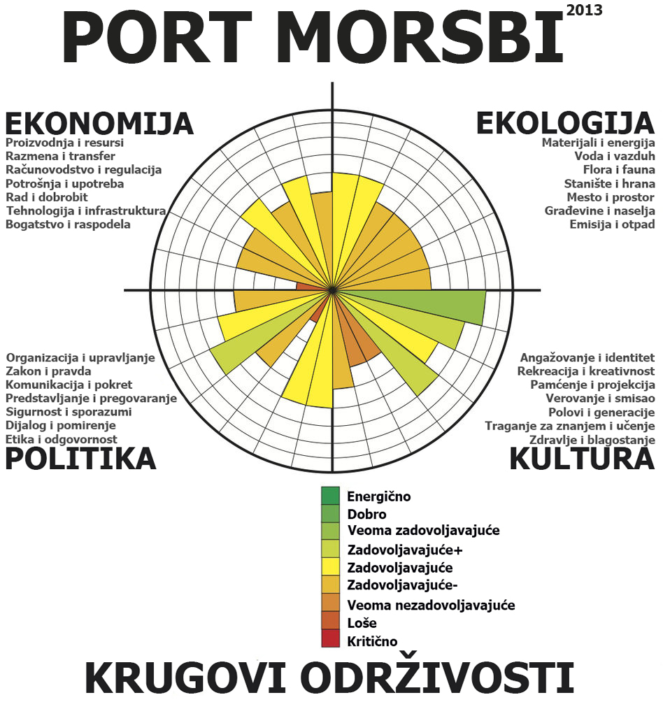 Profil Port Morsbija, nivo 2, 2013.